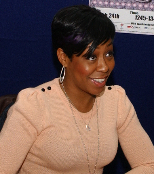 Actress Tichina Arnold talks with a fan at Yokota Air Base, Japan.